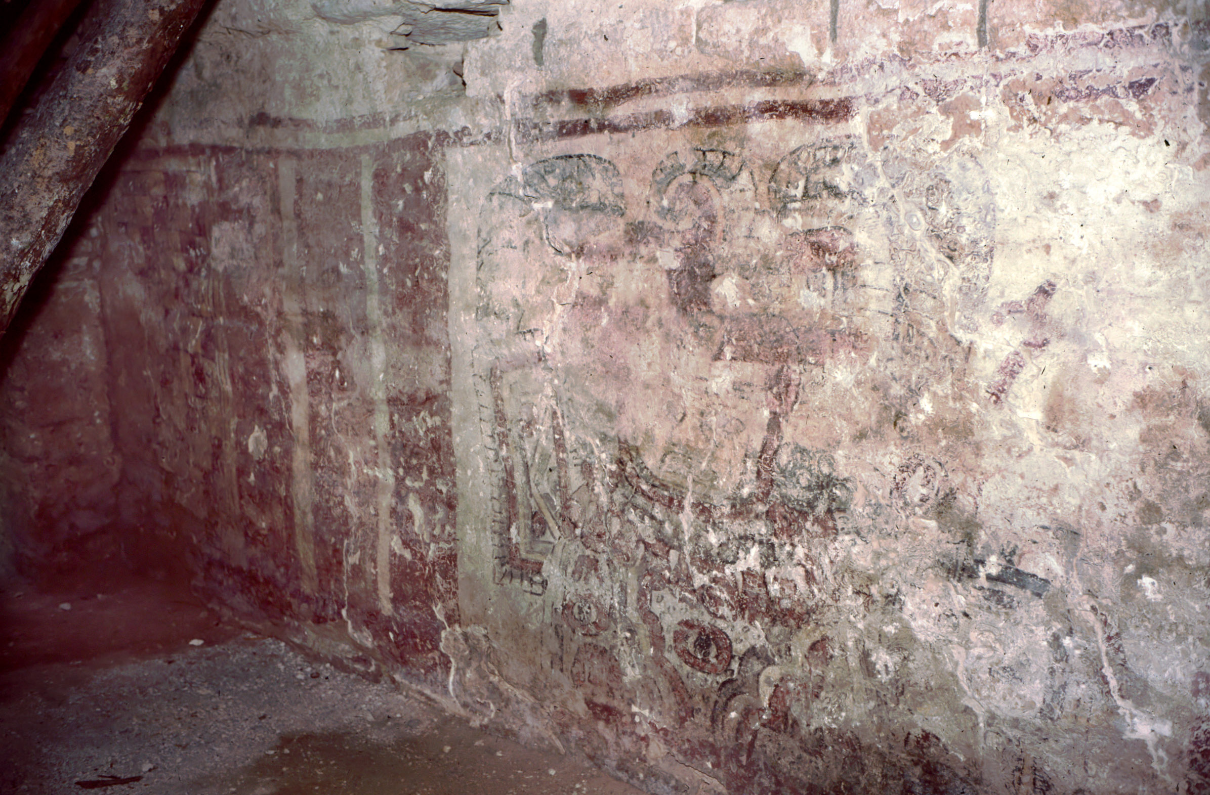 Xelha, Quintana Roo, Mexico: mural